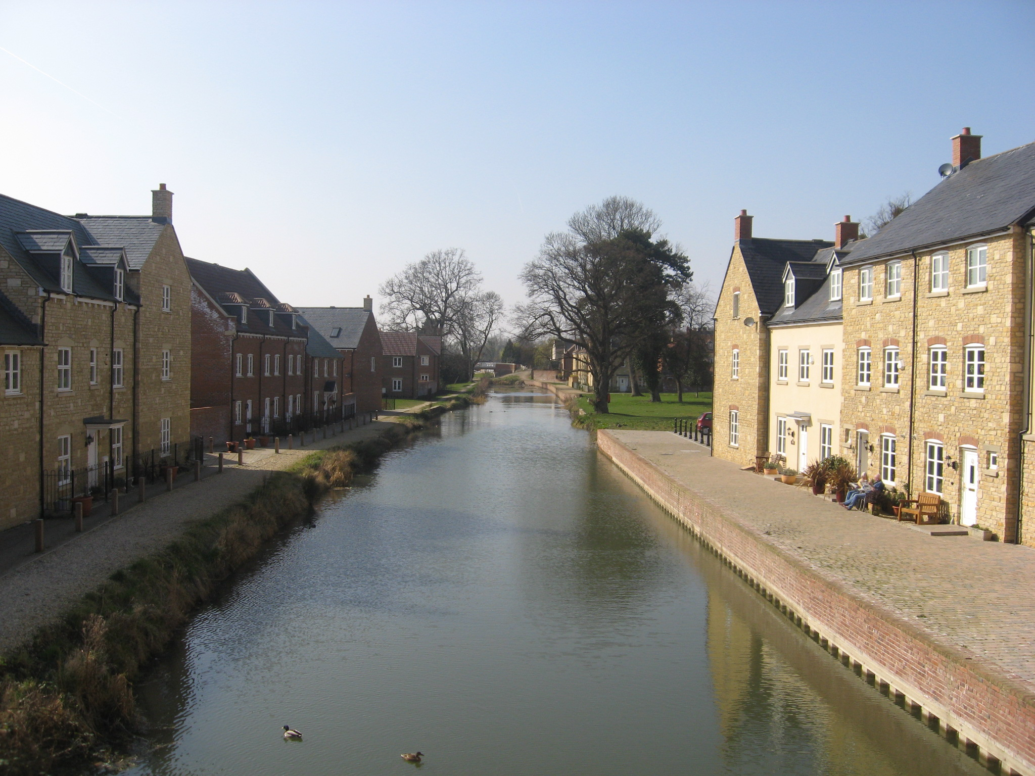 Restored section of the Stroudwater canal, with new housing development alongside